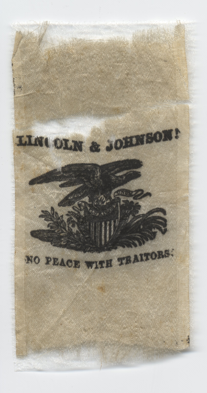 Collection: Cornell University Collection of Political Americana, Cornell University Library Repository: Susan H. Douglas Political Americana Collection, #2214 Rare & Manuscript Collections, Cornell University Library, Cornell University Title: Lincoln-Johnson "No Peace With Traitors" Campaign Ribbon, ca. 1864 Political Party: Republican Election Year: 1864 Date Made: ca. 1864 Measurement: Ribbon: 4 x 2 in.; 10.16 x 5.08 cm Classification: Costume Persistent URI: There are no known U.S. copyright restrictions on this image. The digital file is owned by the Cornell University Library which is making it freely available with the request that, when possible, the Library be credited as its source.